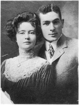 Wedding photo of George and Mabel Herriman, 1902-07-07